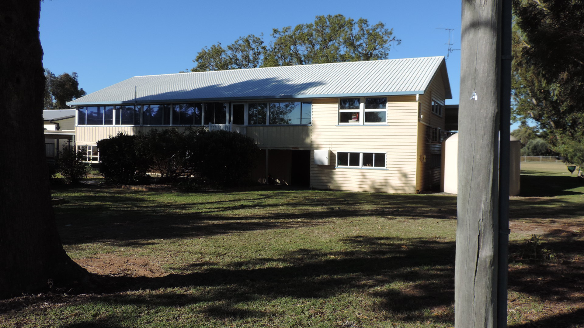 Leyburn State School, classrooms, 2015